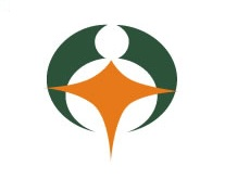 Flag of Kōka, Shiga